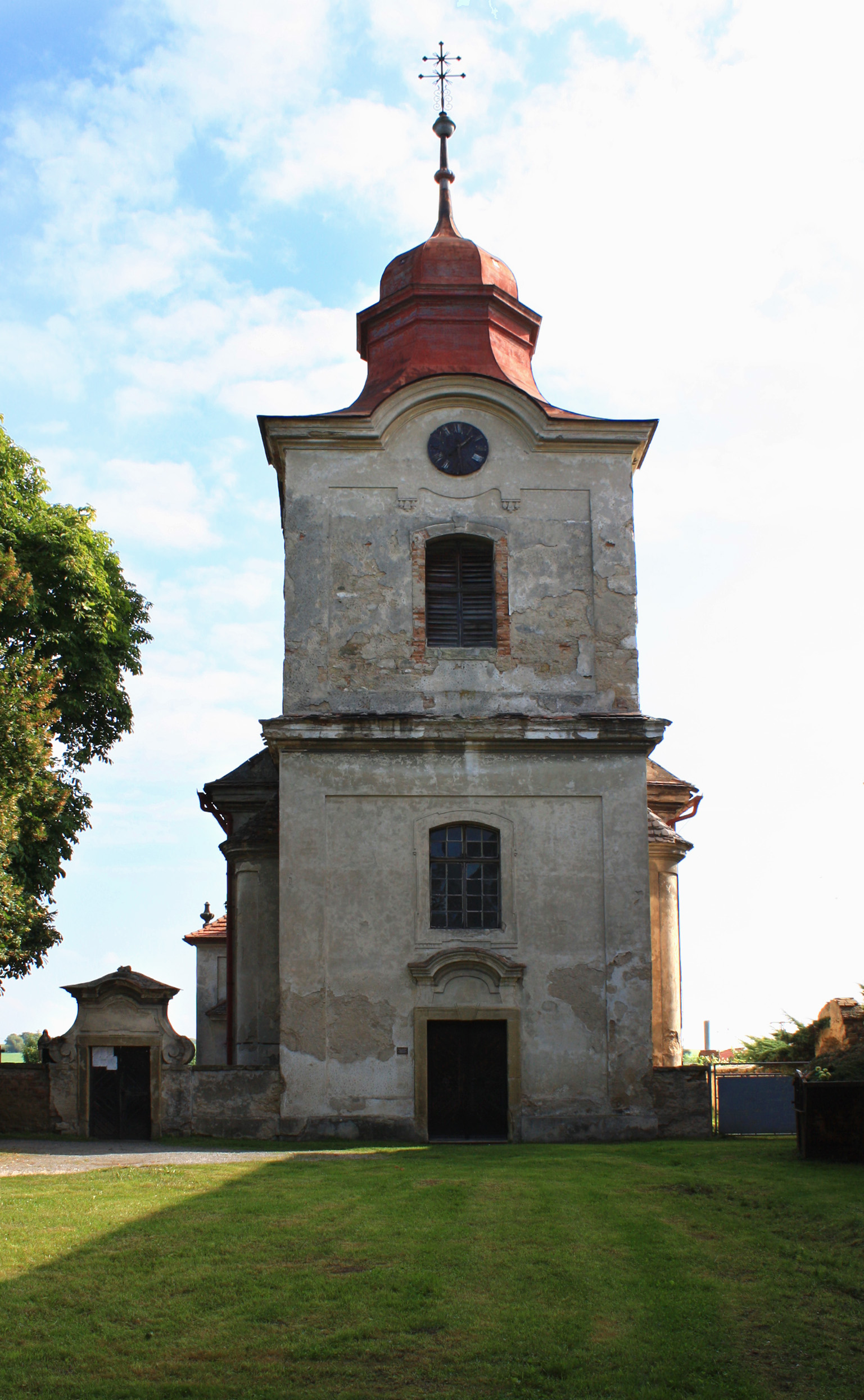 Church in Luštěnice, Czech Republic